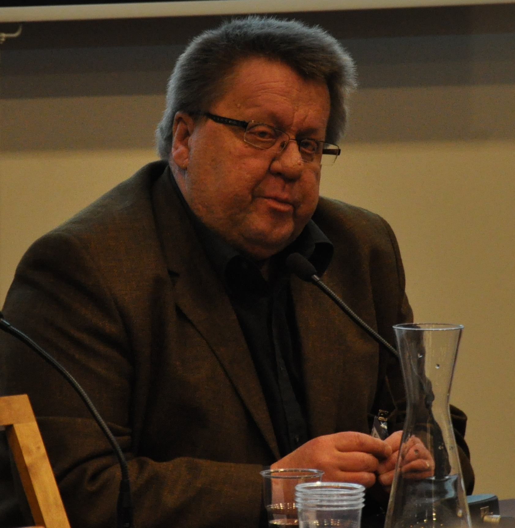 Former chairman of the Council of Mass Media Pekka Hyvärinen at the Helsinki Book Fair 2009.